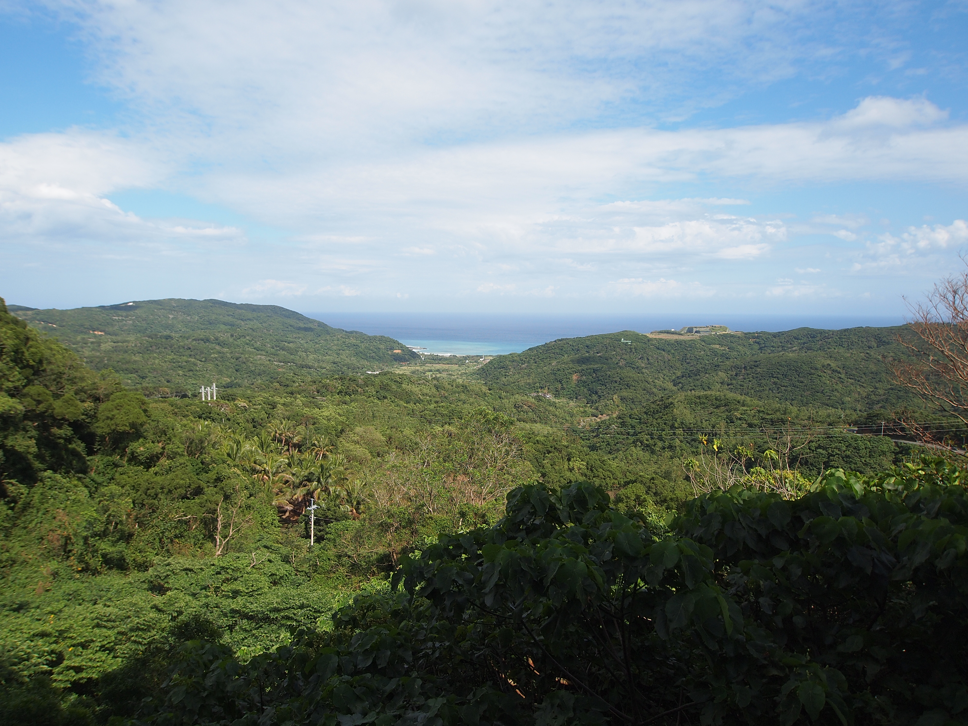 遥望旭海 - Watching Xuhai Coast - 2012.02